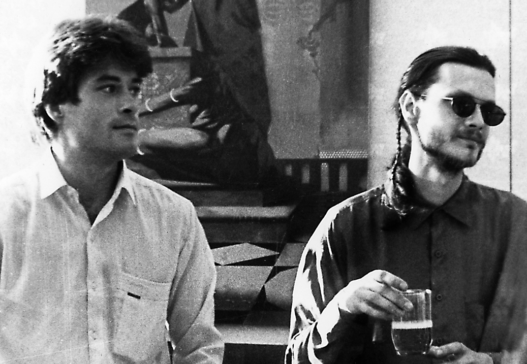 Ihor Podolchak and Ihor Dyurych at the presentation party of Masoch Fund.